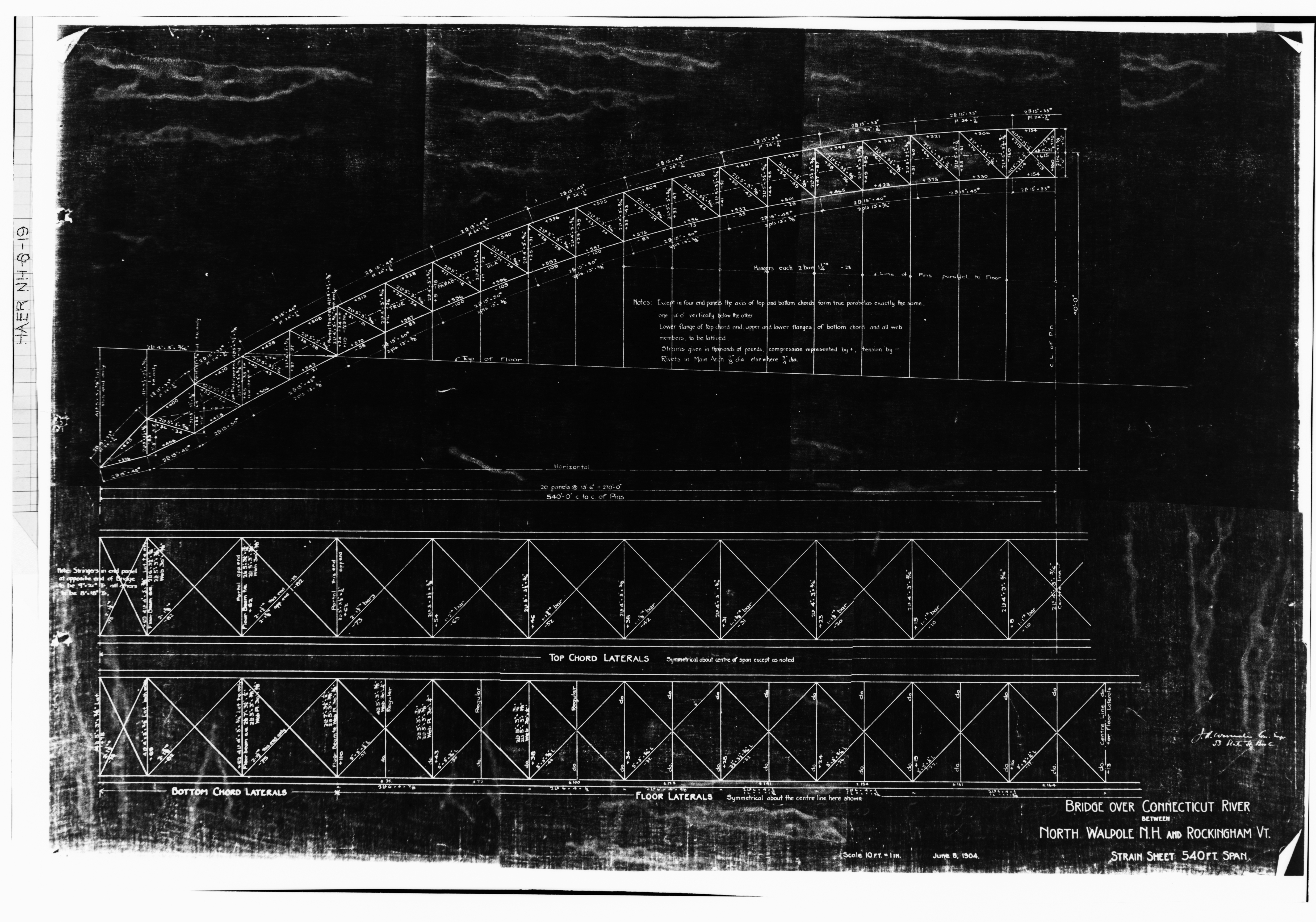 Bellows Falls Arch Bridge, spanning the Connecticut River, North Walpole, Cheshire County, New Hampshire, USA. This image is part of the Historic American Engineering Record (HAER), created by the Library of Congress, and hence is in the public domain. Survey number: HAER NH-6. Copy of original drawing, New Hampshire Department of Public Works and Highways.